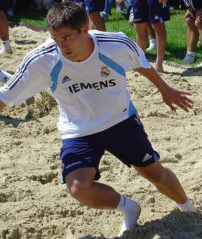 Micael Owen playing for Real Madrid at an Irdning (Styria, Austria) training camp. Cropped version.